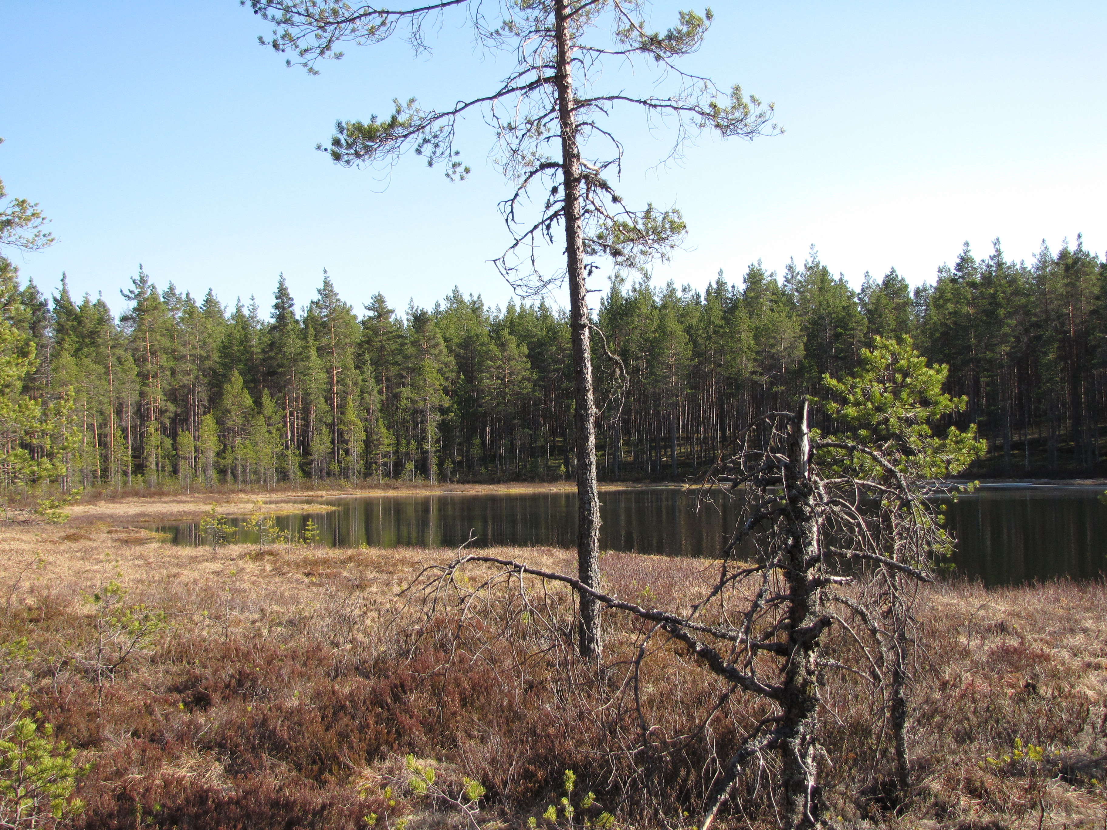 A kettle pond "Lapinkaivo" in Nummijärvi village, Kauhajoki, Finland.